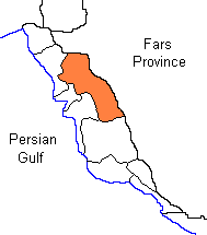 Dashtestan County in Map of Bushehr Province of Iran.